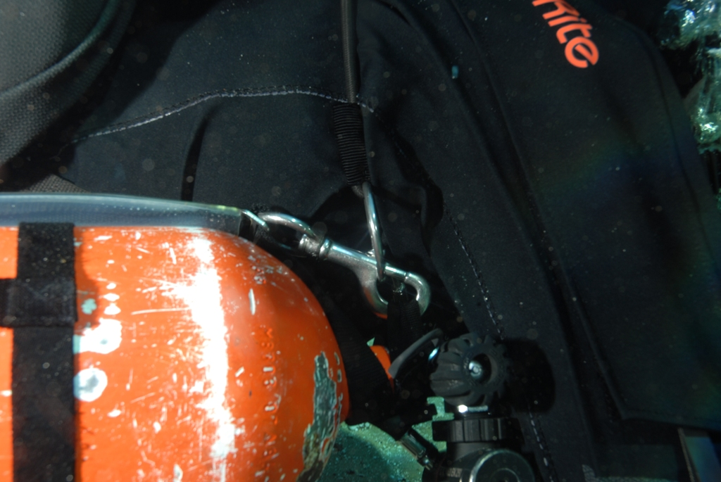 Sidemount diver: detail of top of cylinder